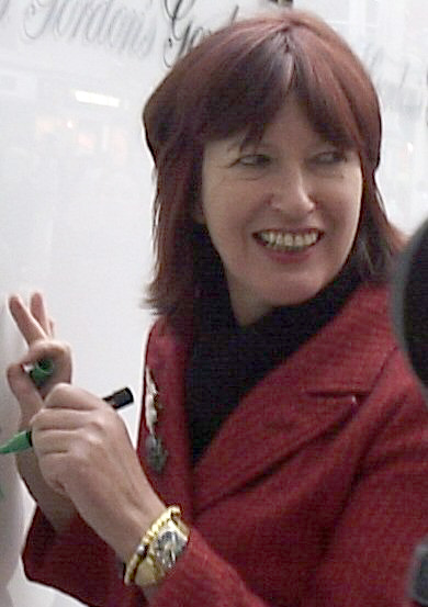 Something to do with gin and the Turner Prize.